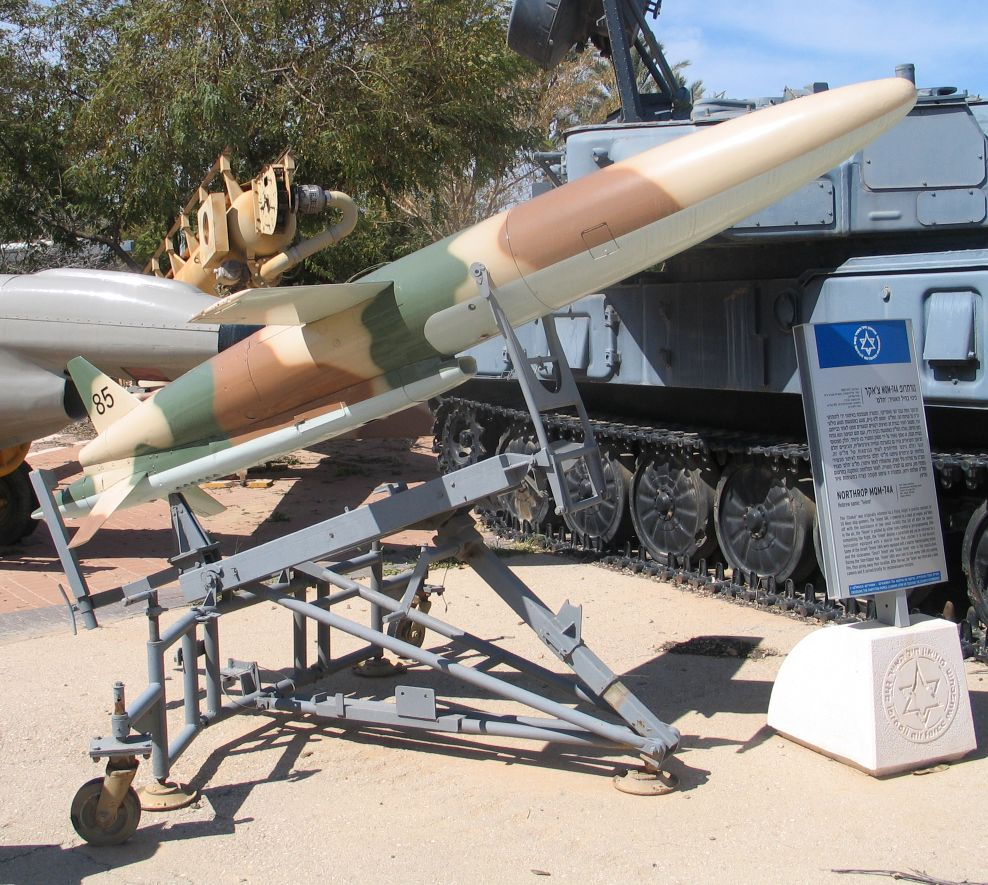 Description: Northrop MQM-74A Chukar UAV (IDF designation Telem) at Muzeyon Heyl ha-Avir, Hatzerim airbase, Israel. 2006. Source: Photo by me, User:Bukvoed.